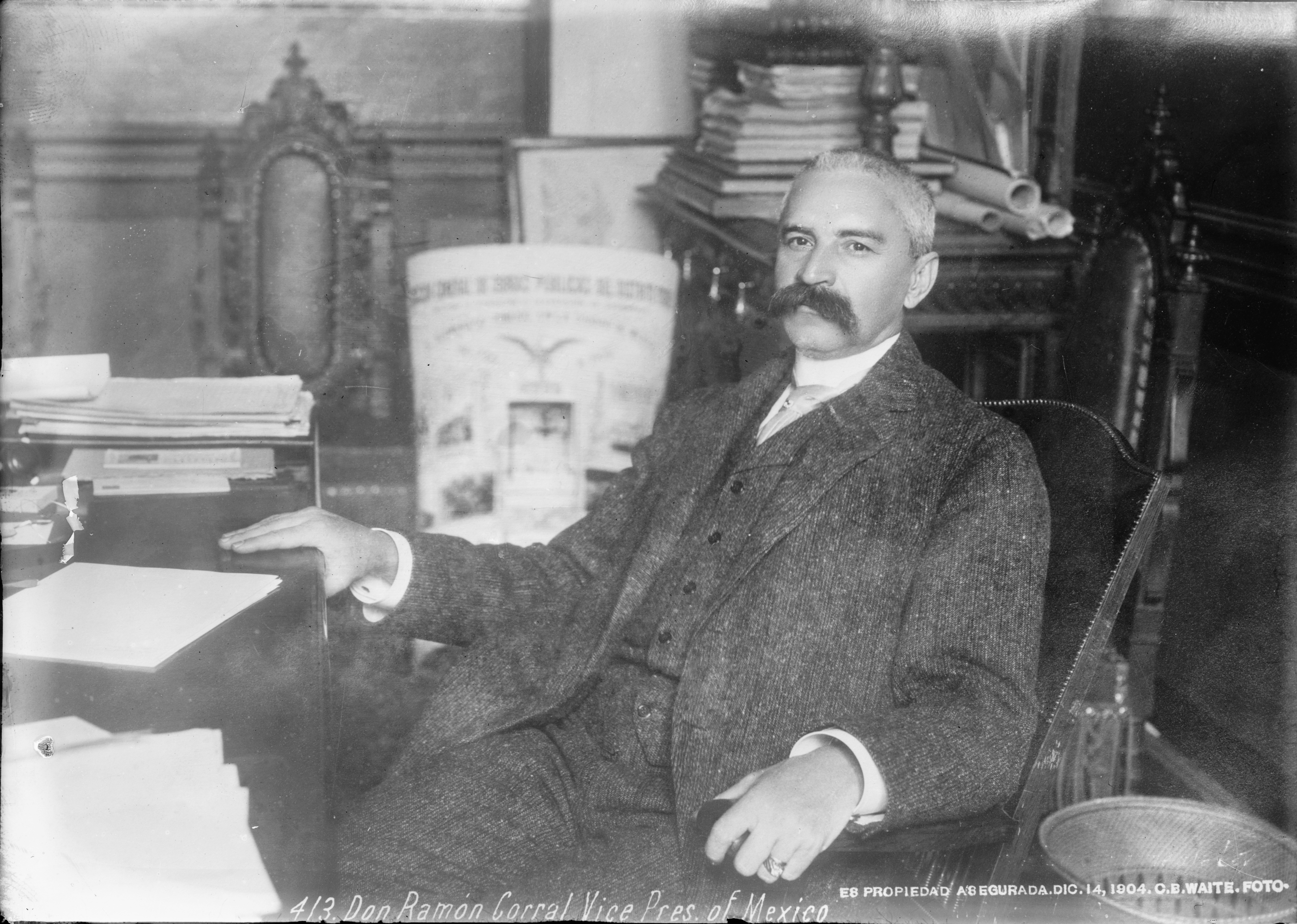 Ramón Corral, former Mexican Vice President during the Porfirio Díaz regime.